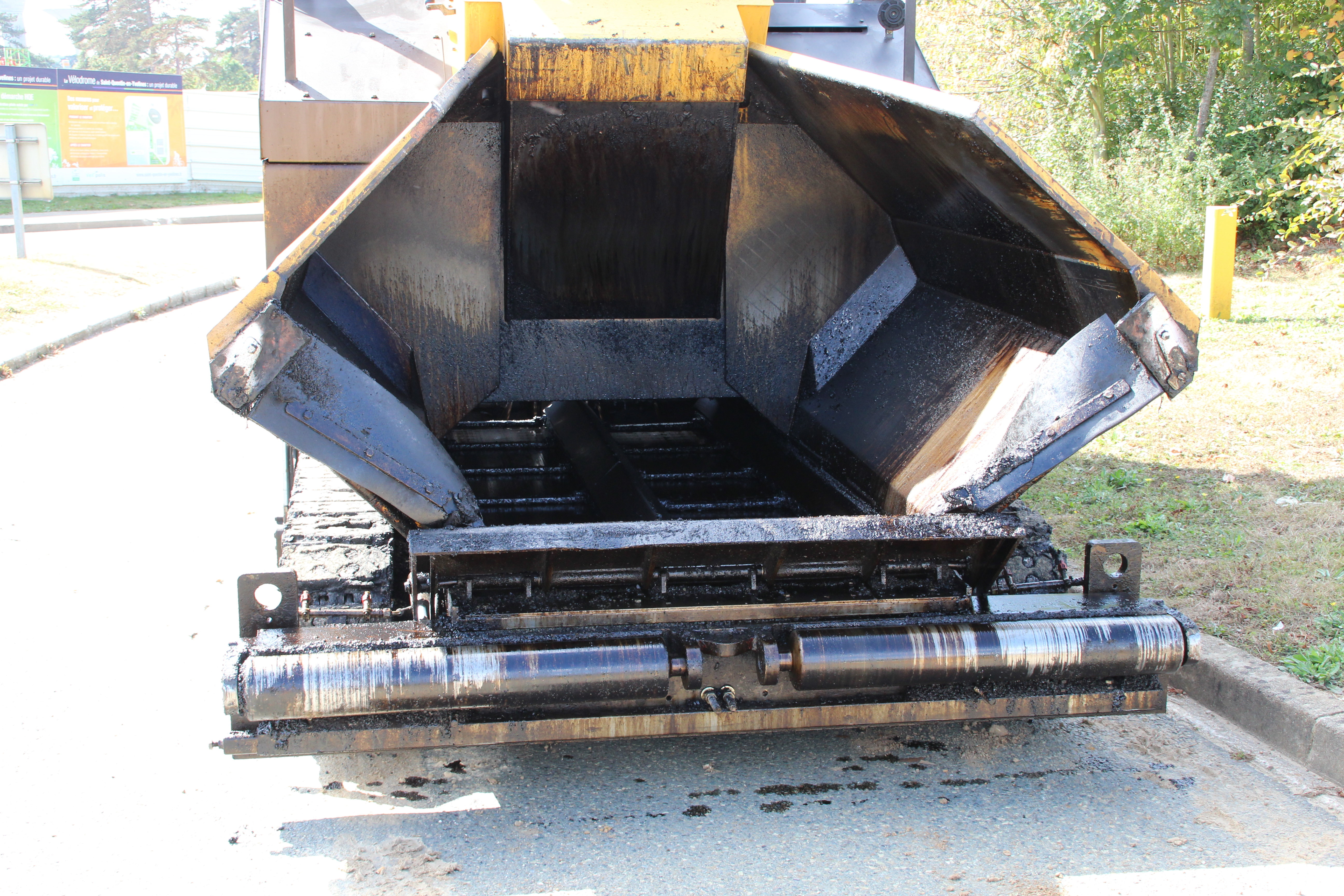 ABG Titan 7820 paver near the velodrome of Montigny-le-Bretonneux, France, being build in septembre 2012.